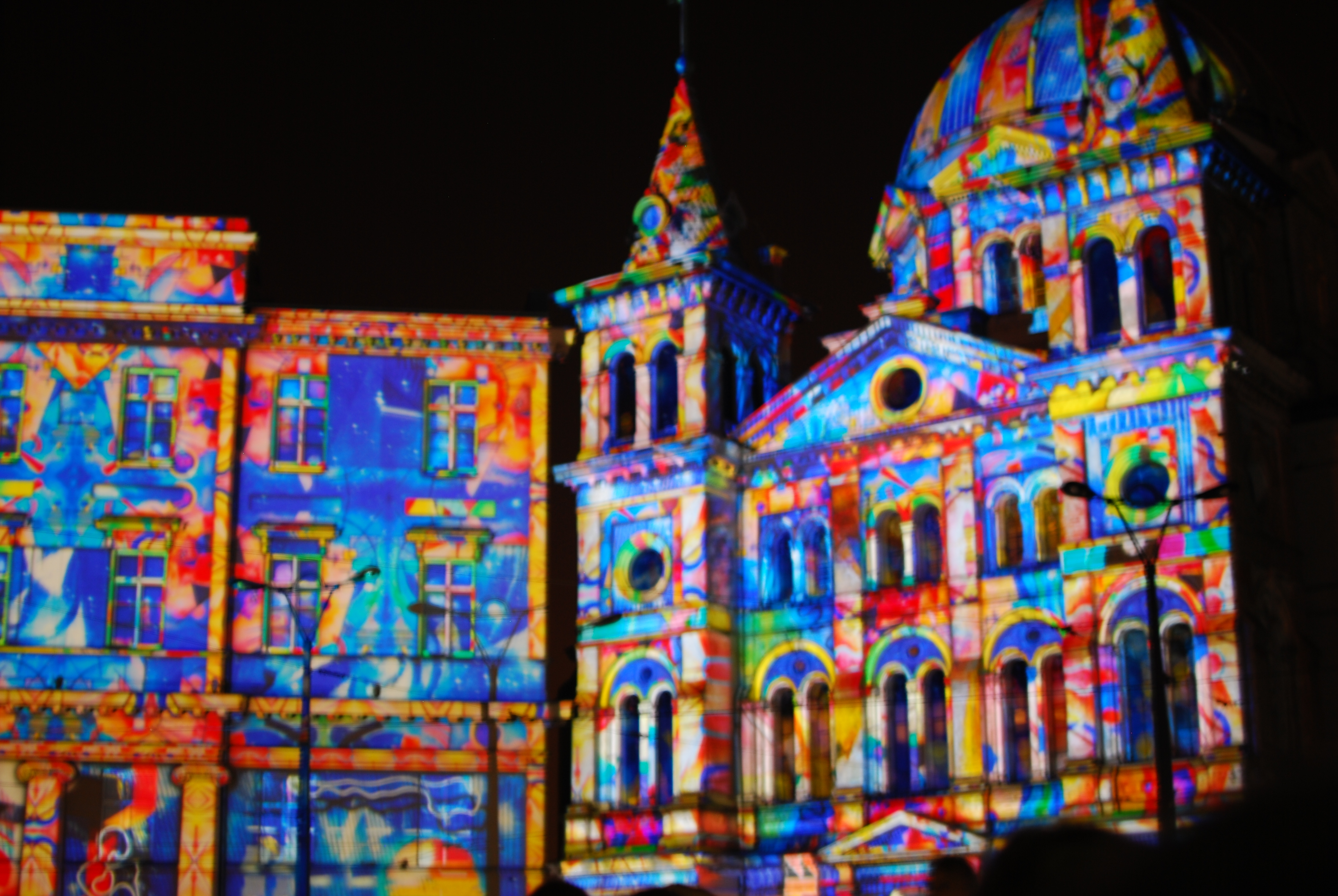 Light Move Festival Łódź 2014